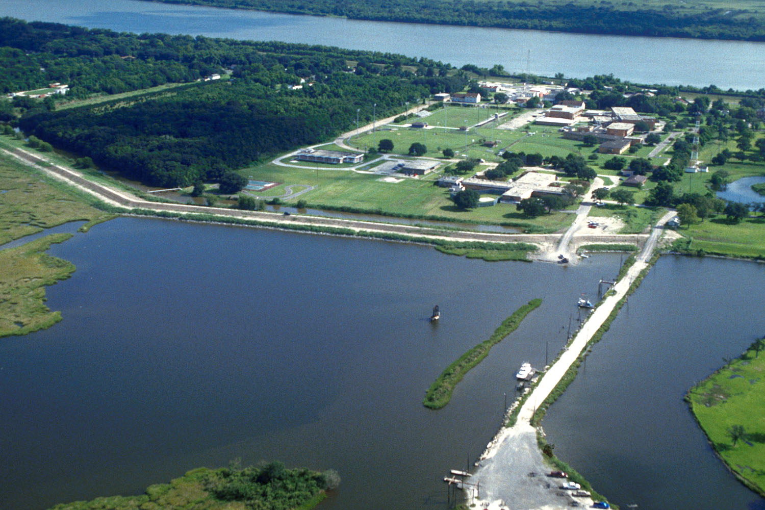 Aerial view of the central part of Port Sulphur in Plaquemines Parish, Louisiana, USA. The Mississippi River runs northwest–southeast at the top of the picture. View is to the north-northeast.